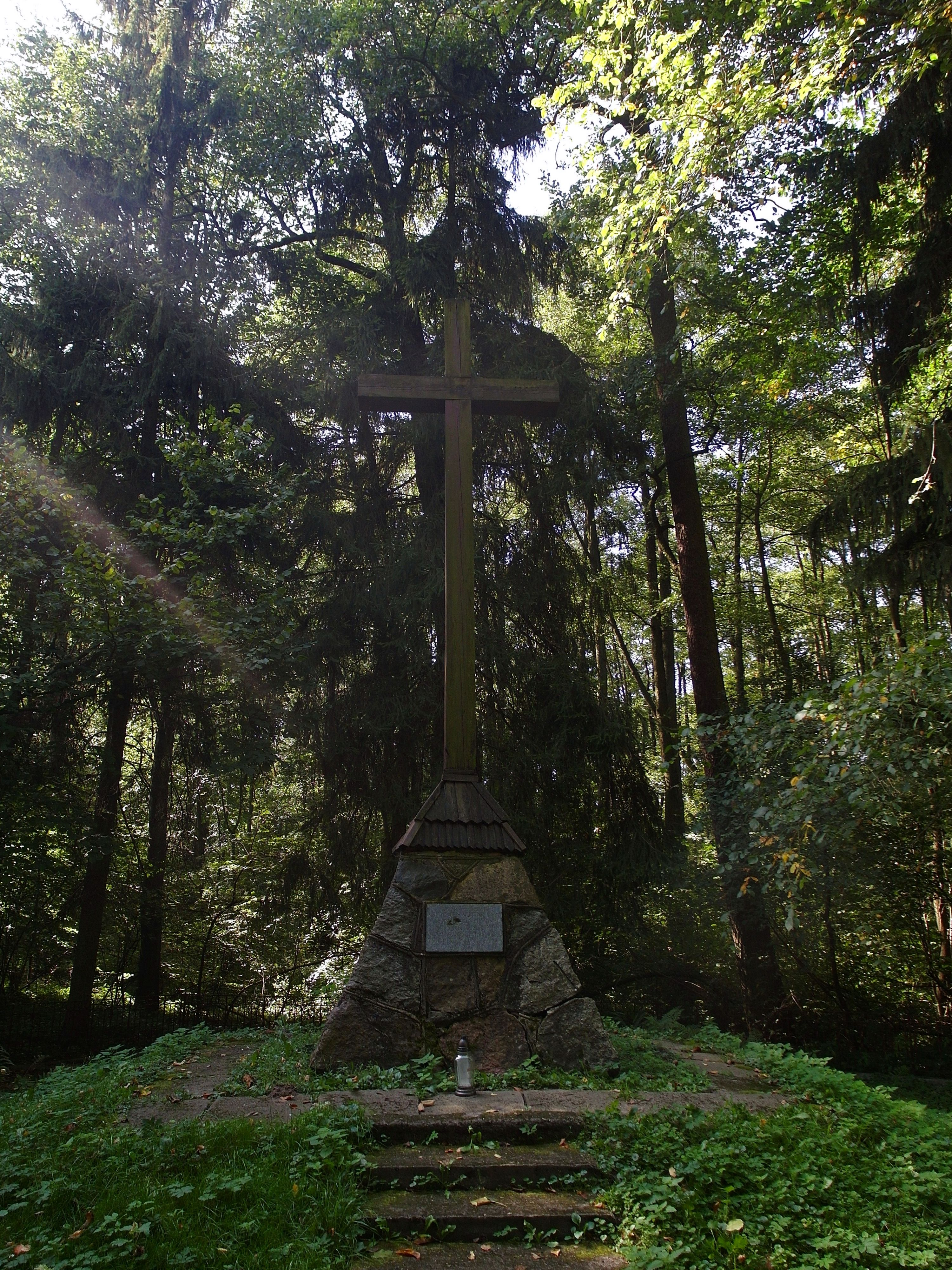 Kosciuszko Mound in Nowa Krępa, Poland